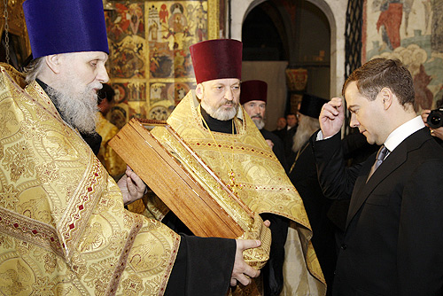 ANNUNCIATION CATHEDRAL, MOSCOW. Dmitry Medvedev was presented with a blessed icon of the Vladimir Mother of God.